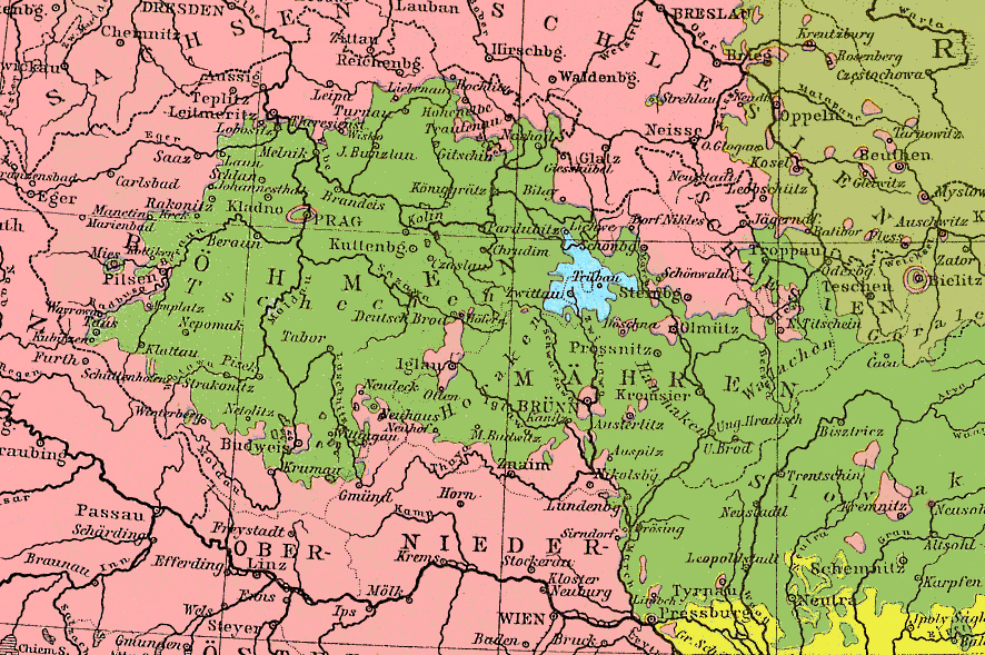 Area of the German (red and blue), Czech and Slovak (green) and Hungarian (yellow) languages in Austria-Hungary monarchy in the 19th century (Bohemia and Moravia and adjoining German Prussia) blue: Schönhengstgau, Hřebečsko